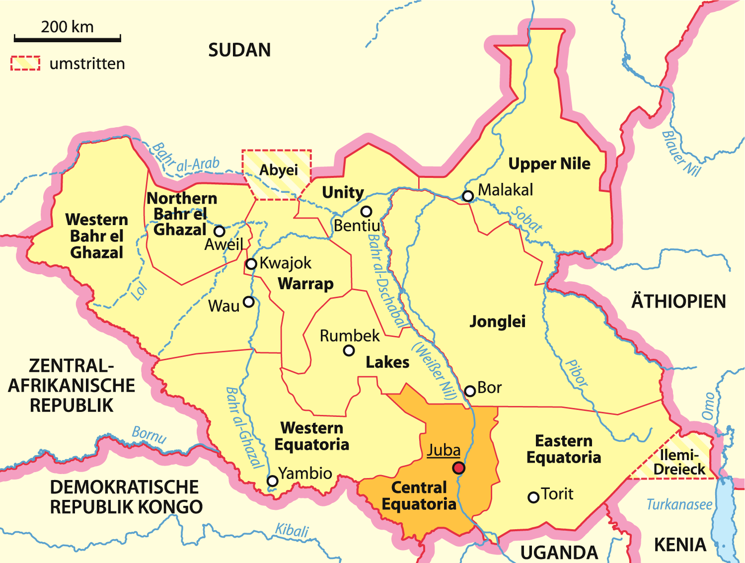 Map of Central Equatoria state — in the central Equatoria region of South Sudan.